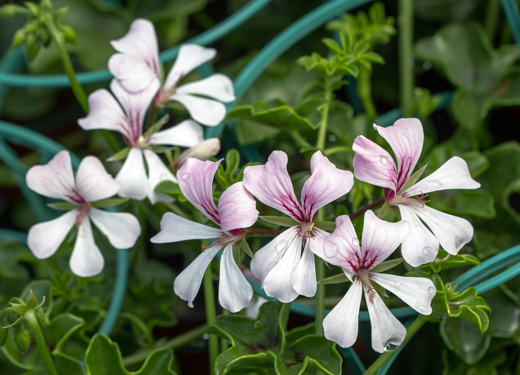 Pelargonium peltatum flower